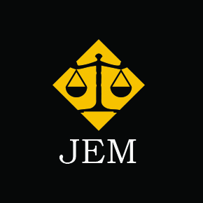 This is a logo for the Justice and Equality Movement, a Sudanese opposition group